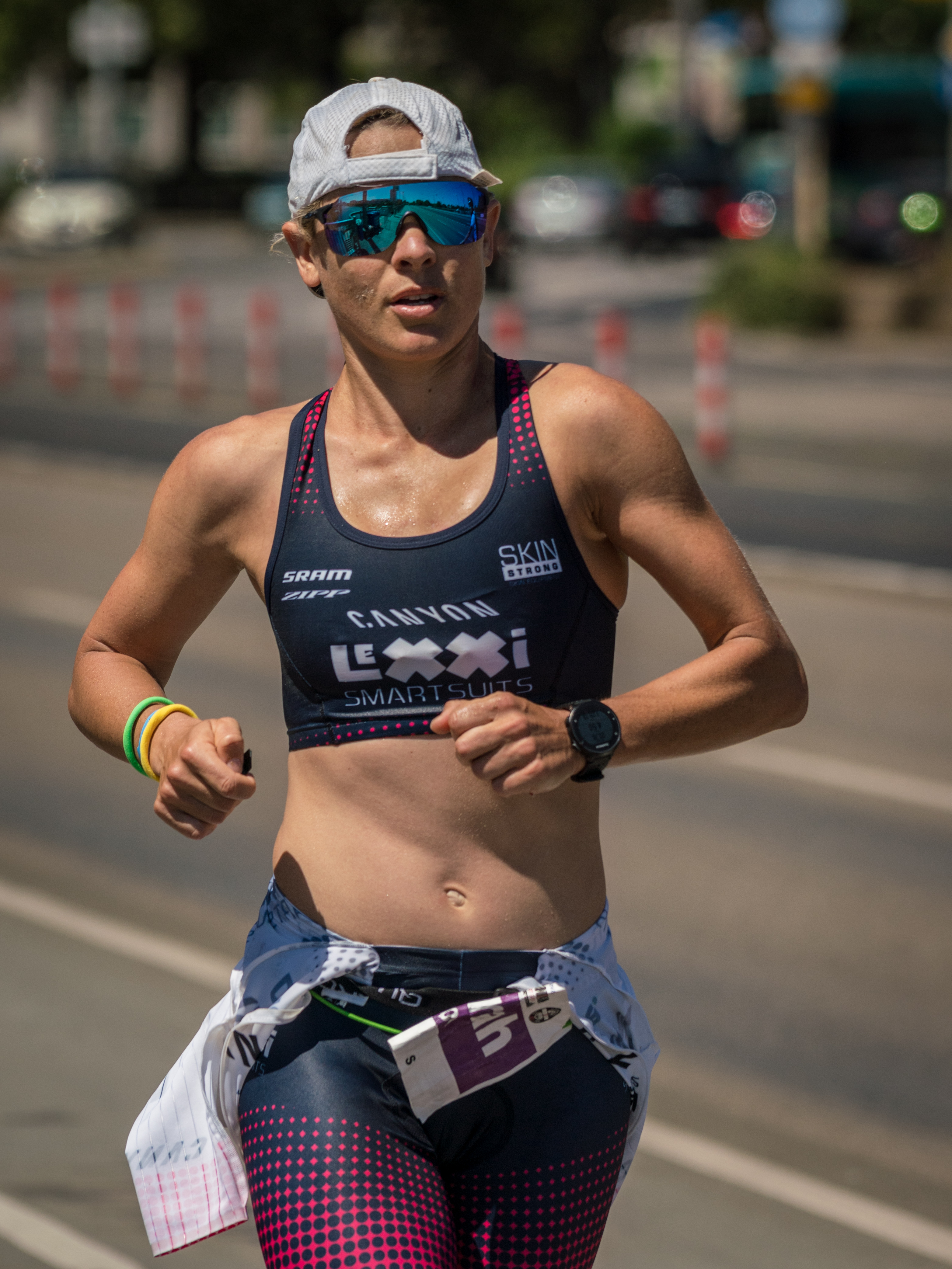 Third female Sarah Crowley at the 2018 Ironman European Championship in Frankfurt am Main (Germany).